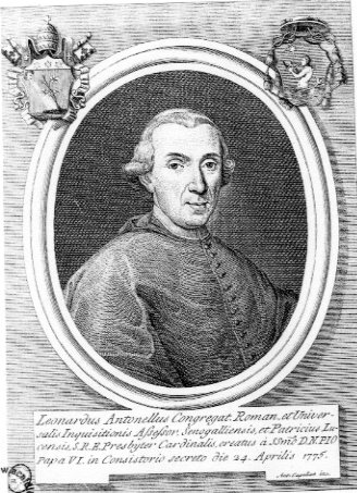 Portrait of Leonardo Antonelli (1730-1811)